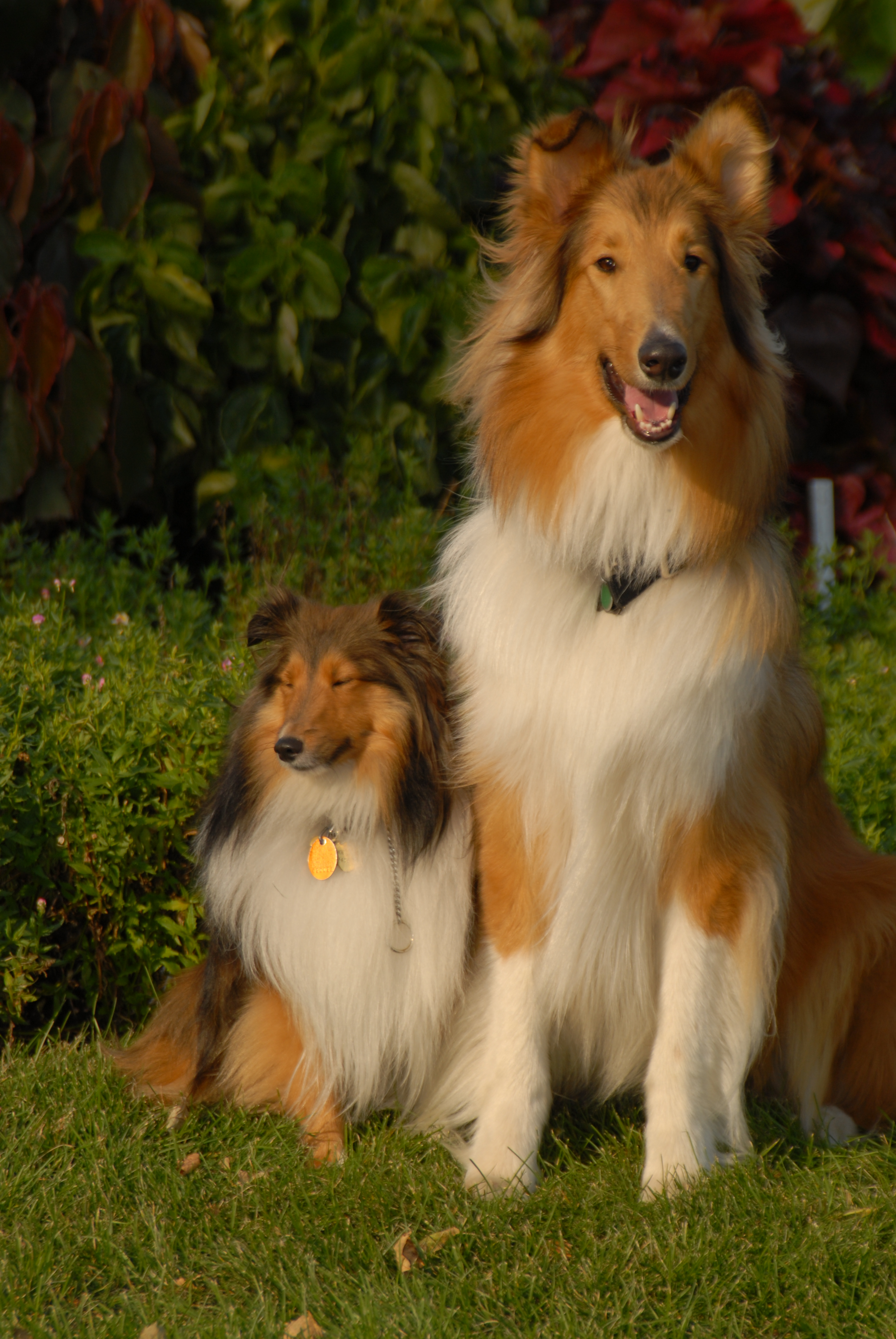 A Shetland Sheepdog (left) and a Rough Collie.